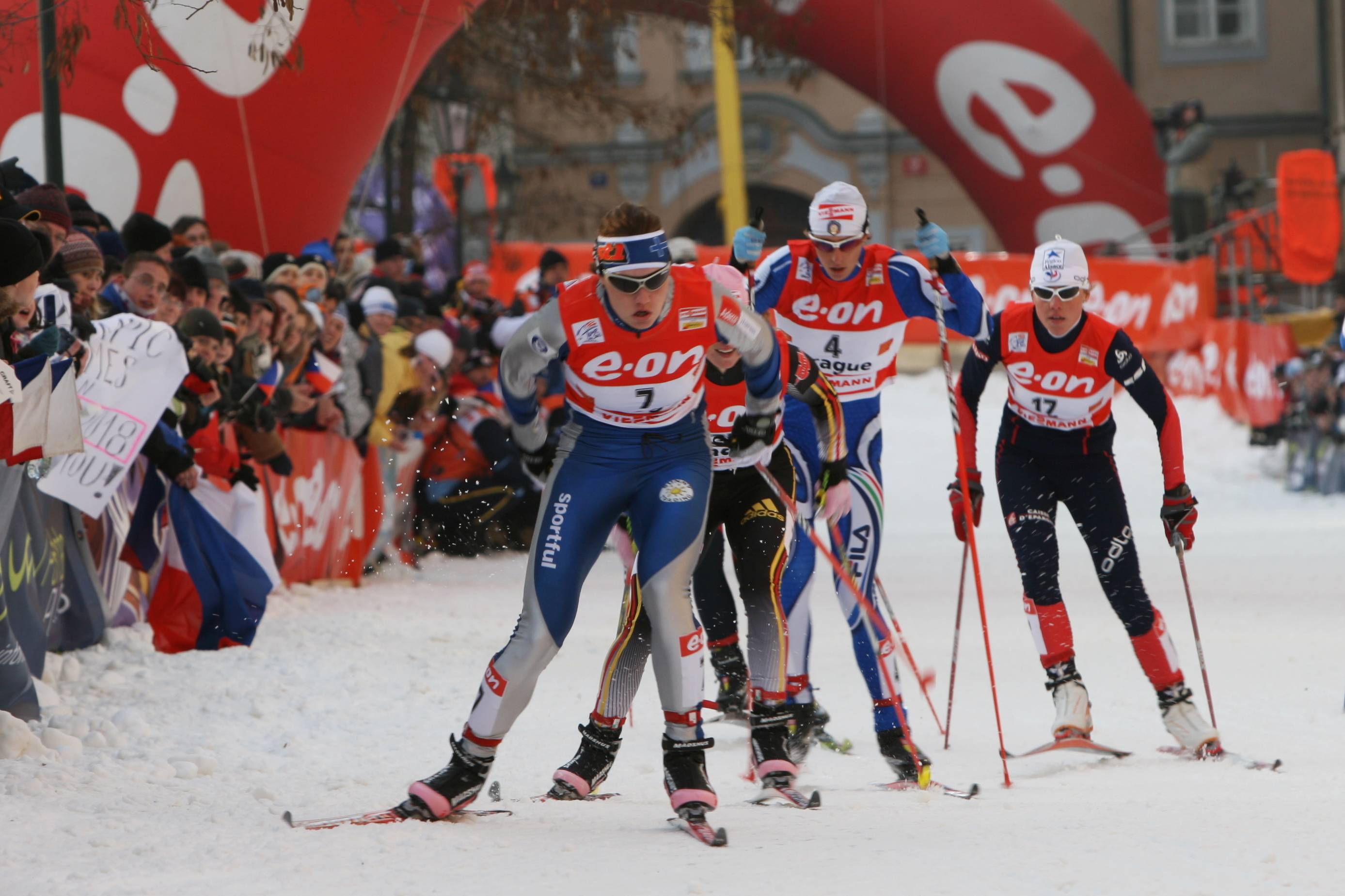 Pirjo Muranen (7) leading the group in the quaterfinals of Tour de Ski in Prague